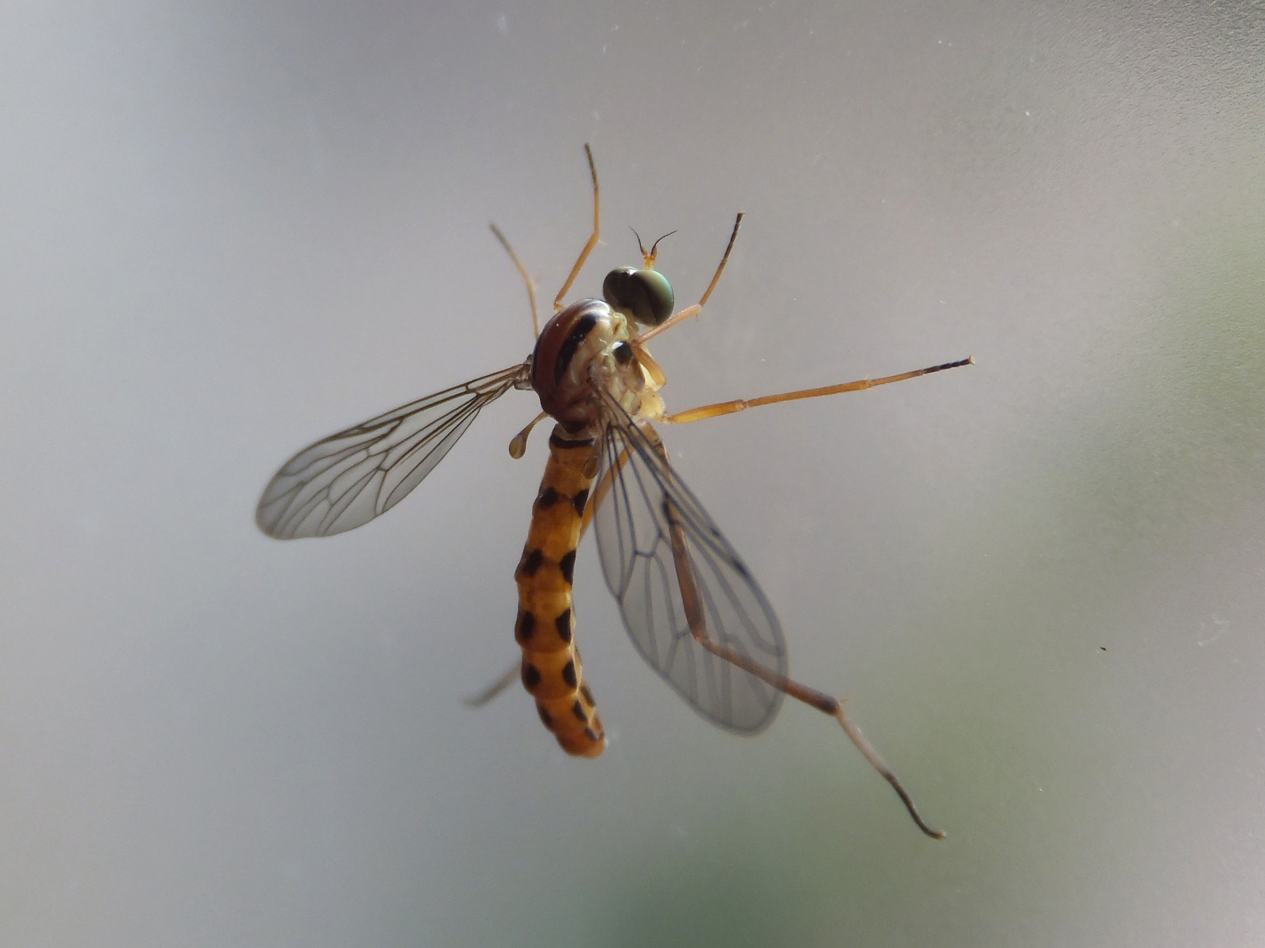 A wormlion (Vermileo vermileo) photographed in Piazzo (Segonzano, Italy) - Adult